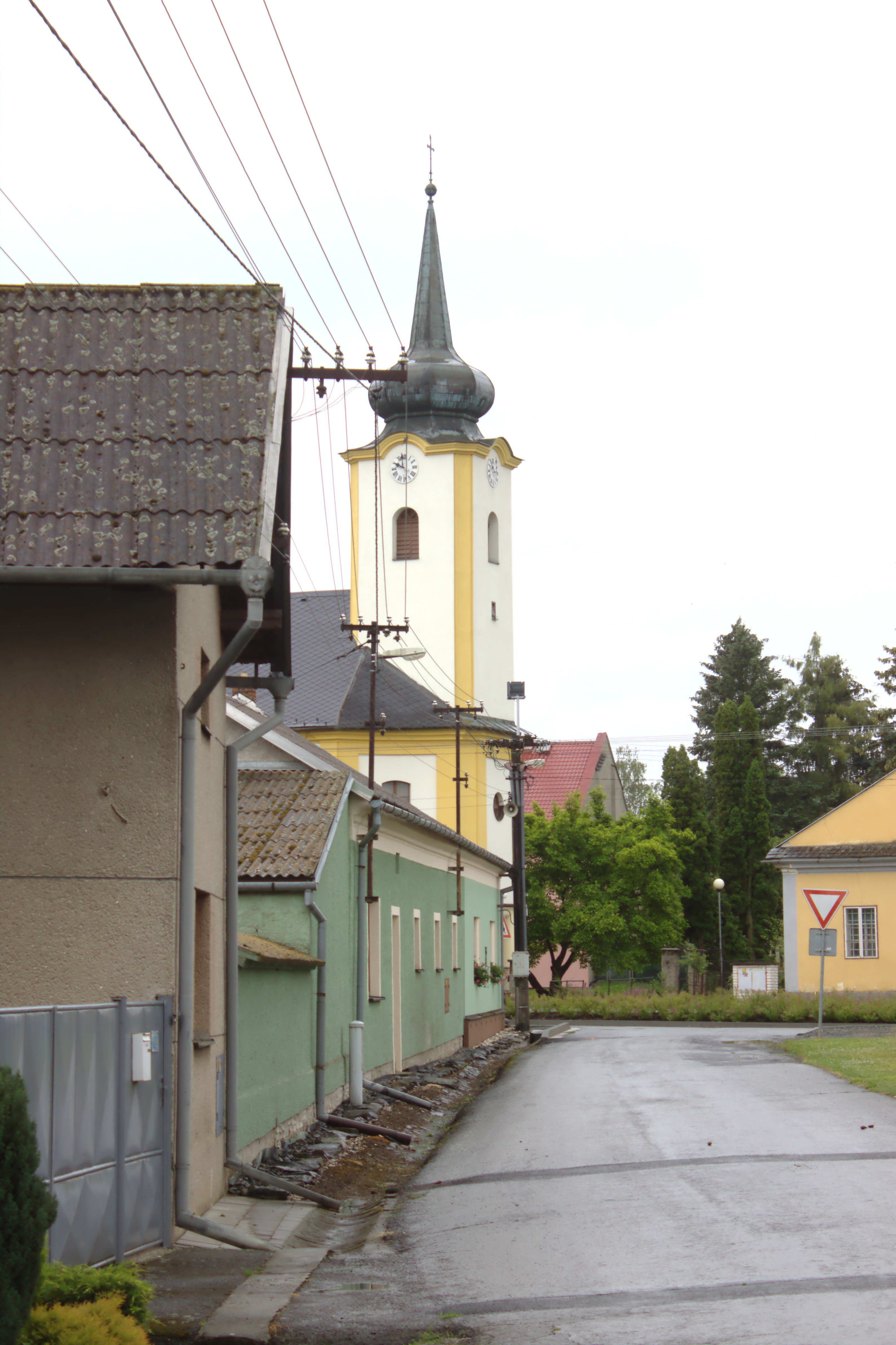 A church in the village of Pňovice, Olomouc Region, CZ